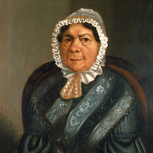 Nipmuc Indian cakemaker of Worcester, Massachusetts and laundress, circa 1830 and displayed at the Worcester Historical Museum since 1895. Both artist and subject would have died prior to 1923.